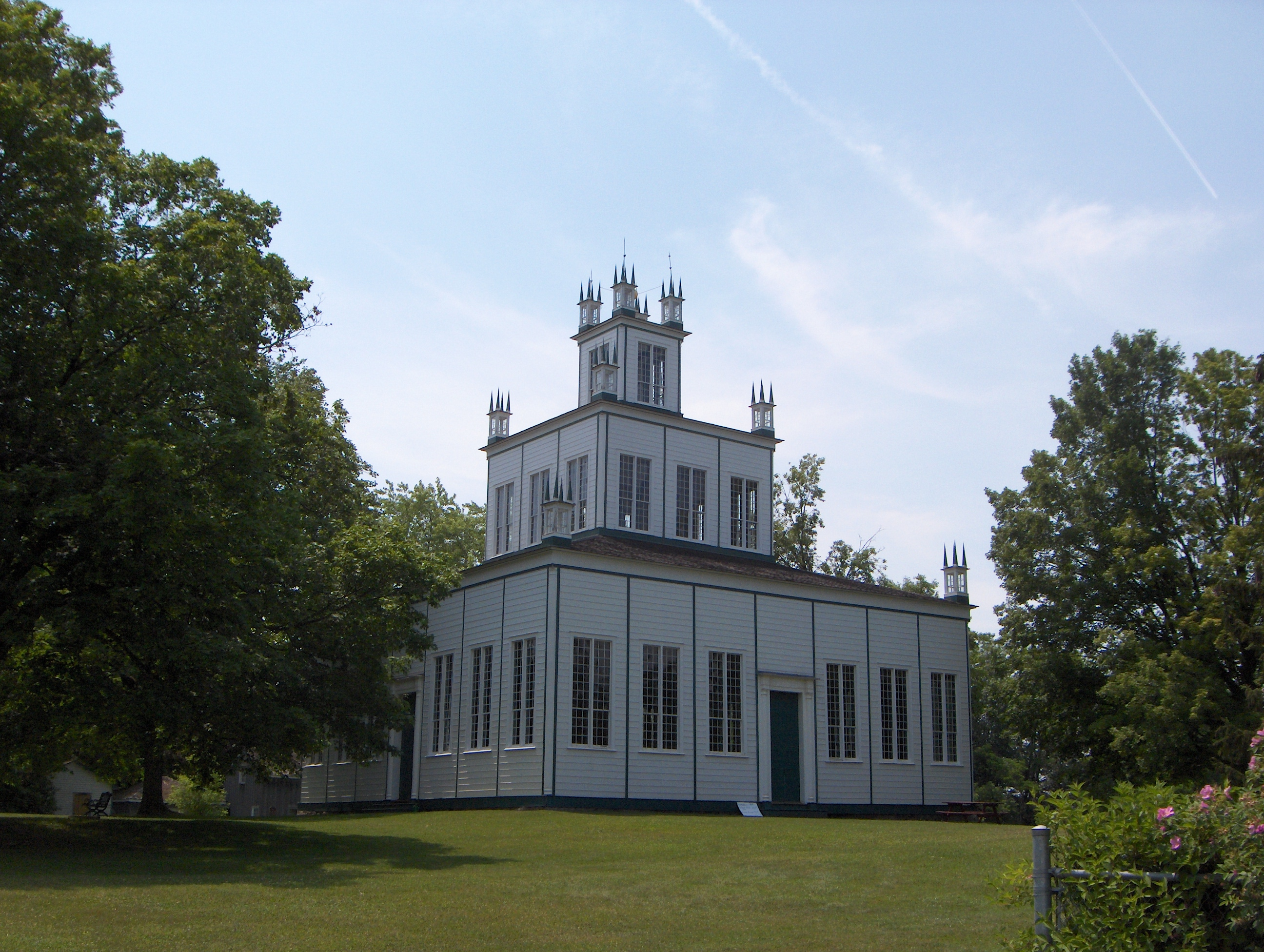 Exterior of the Sharon Temple -- Sharon, Ontario, Canada